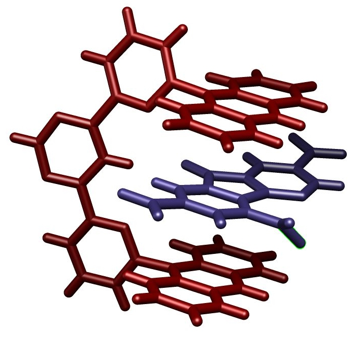 This is a picture generated from crystal structure data reported by Anne Petitjean, Richard G. Khoury, Nathalie Kyritsakas, and Jean-Marie Lehn in the Journal of the American Chemical Society, 6637-6647, 2004. It shows 2,4,7-trinitrofluorene bound in molecular tweezers. It was made by myself and is free to be used by all.